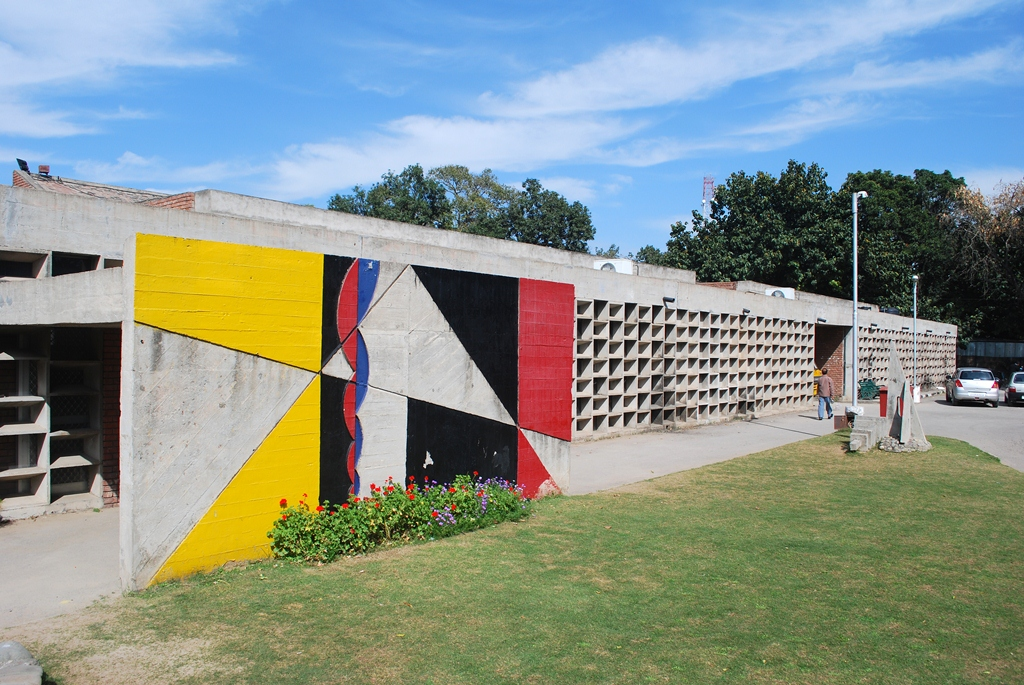 Front façade of Chandigarh College of Architecture